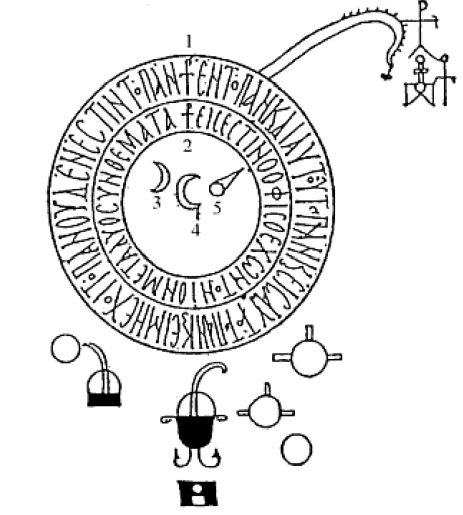 Stylised figure from Kleopatra's alchemical Chrysopoeia